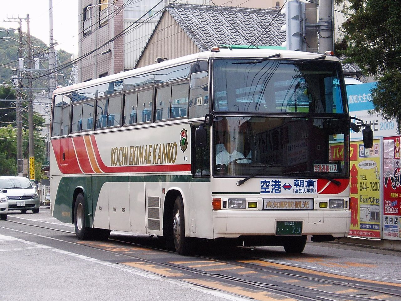 Kochi Ekimae Kanko Hino P-RU638B at Asakura Sta.